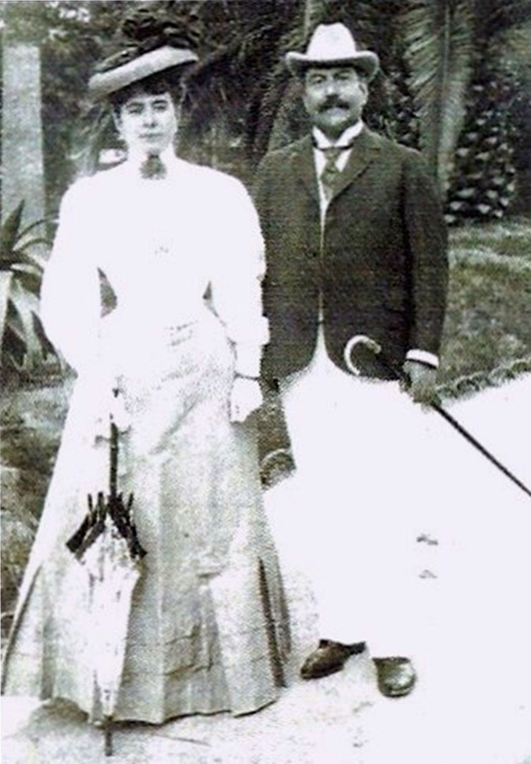 Lieutenant-Colonel Arthur Jules Marie Lemoël (1858 -1918), superior commander of the carabiniers of Prince Albert I of Monaco and his wife Louise Euphémie Marie Courteille (1869-1950), natural daughter of Lord Charles Henry Lionel Widdrington Standish (1823-1883), in the gardens of Monaco around 1910.